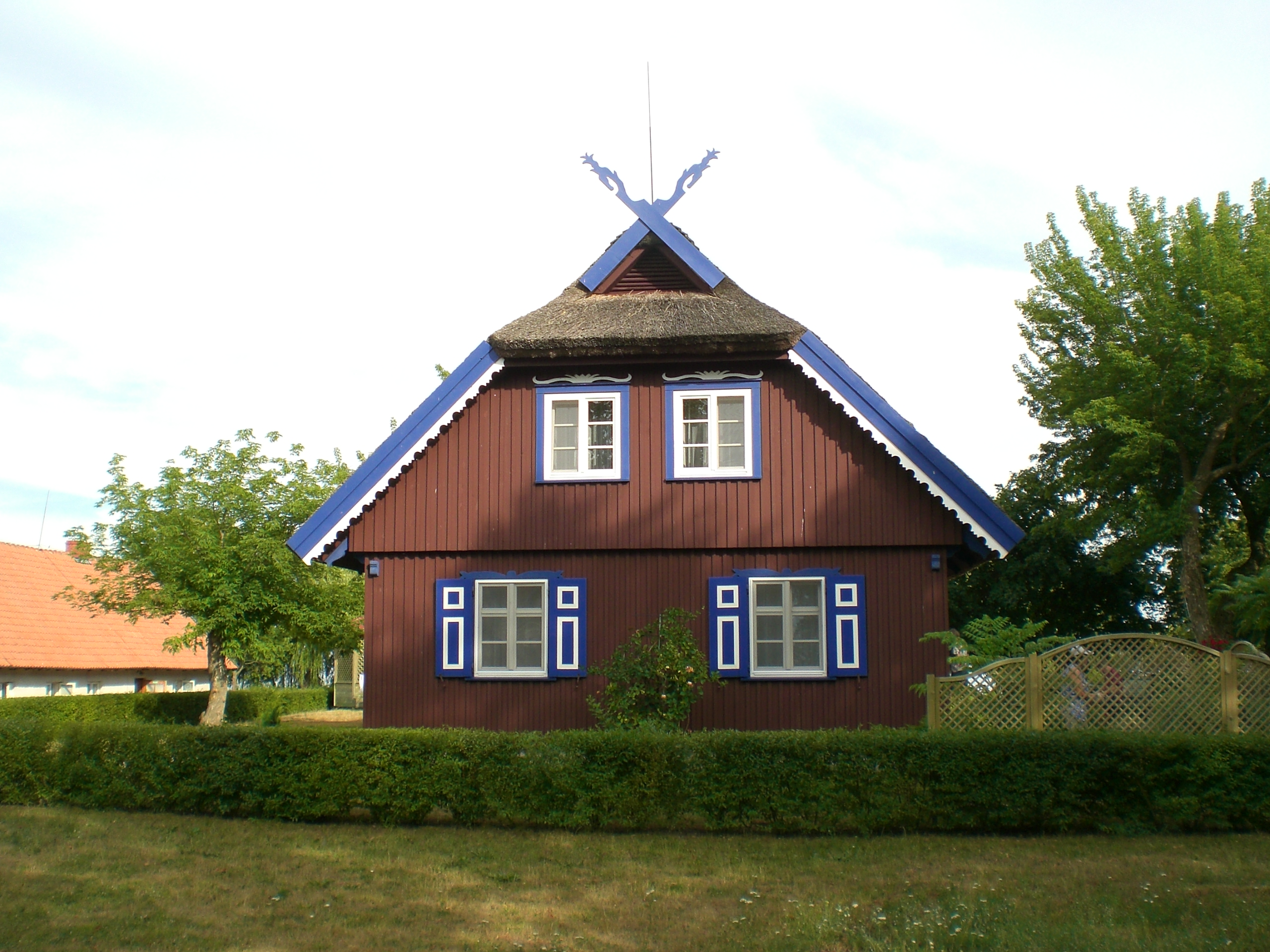 Nida on the Kurischen Nehrung in Lithuania